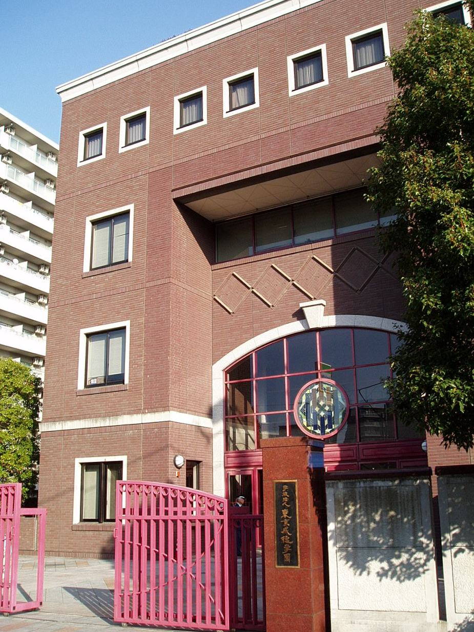 The headquarters of the Educational Foundation Tokyo Seitoku Gakuen located in Kita, Tokyo, Japan.